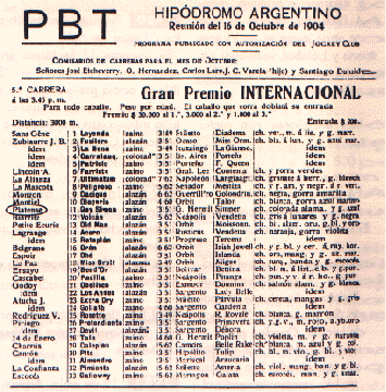 Publication by the Argentine Racetrack listing the competitors. Marked in a circle, the "Platense" stud that then would inspire Club Atlético Platense to take its name.